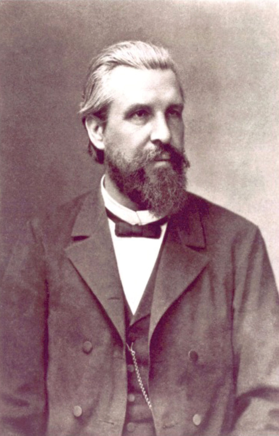 Leonhard Sohncke during his time as a professor for physics at the Technische Hochschule Munich 1886 -1897